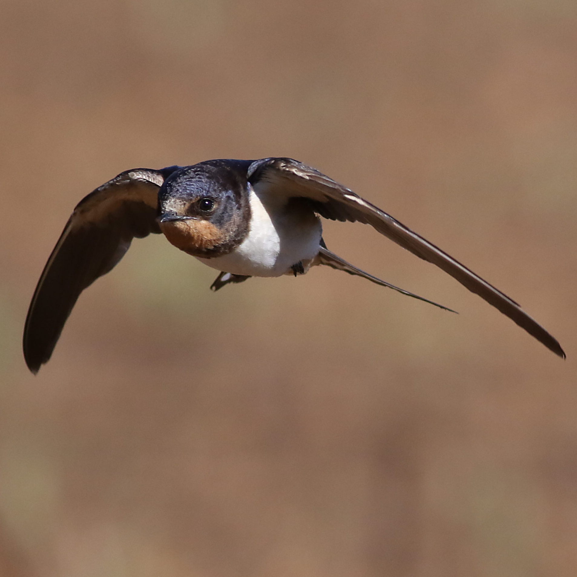 Barn swallow, Hirundo rustica-2